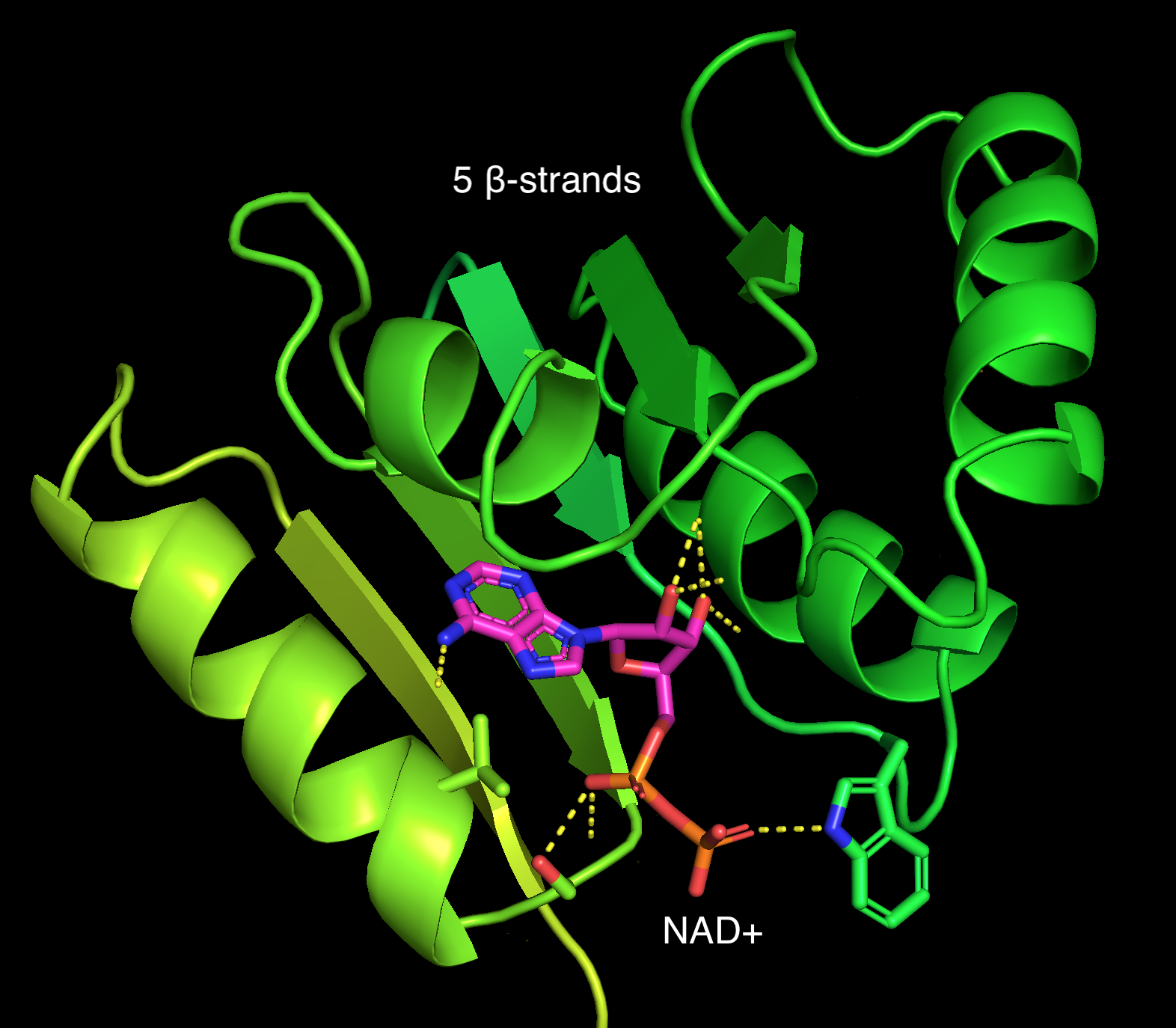 This is a depiction of NAD+ bound to the unique Rossman fold structure of retinal dehydrogenase - specifically derived from PDB 1BI9.